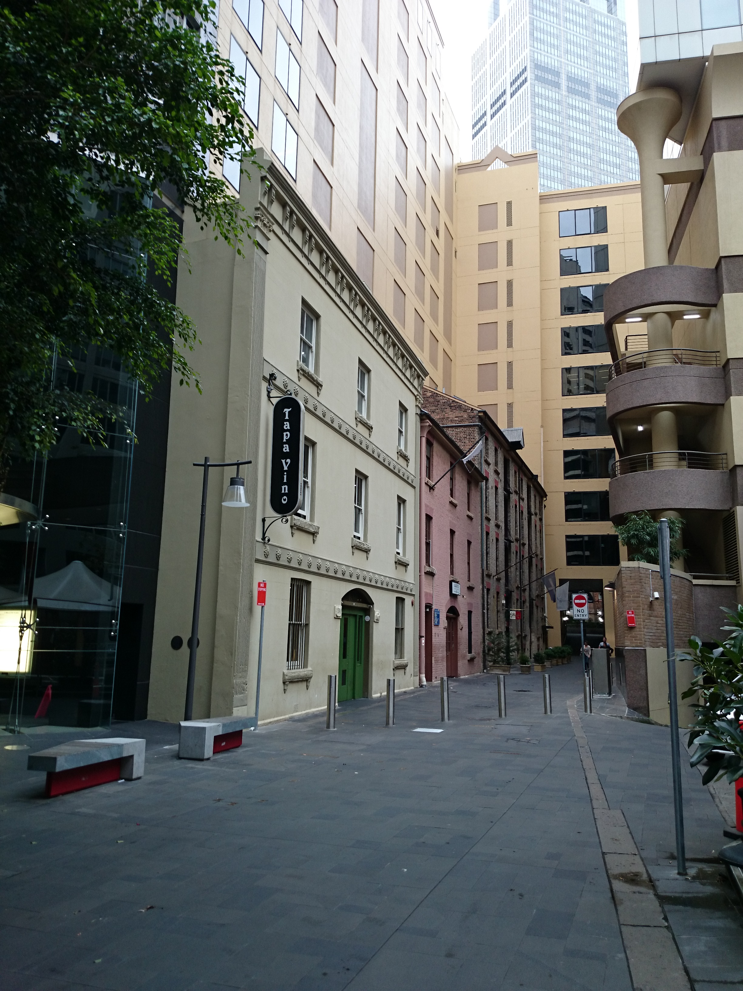 Historical buildings on Bulletin Place in Circular Quay